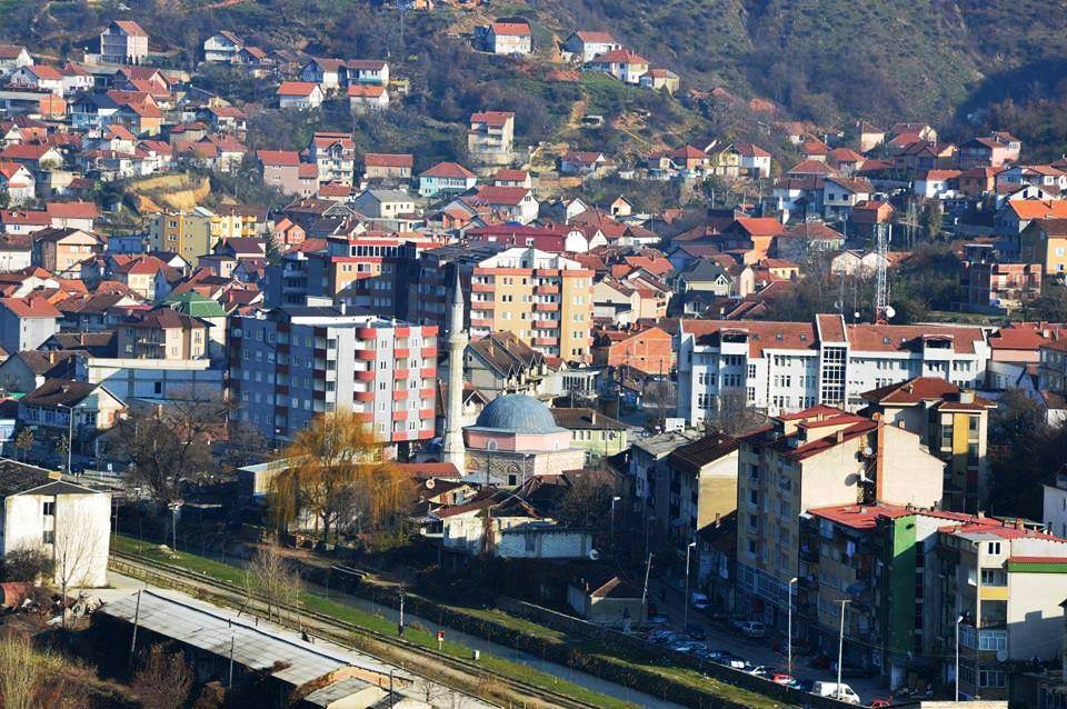 Kaçanik view